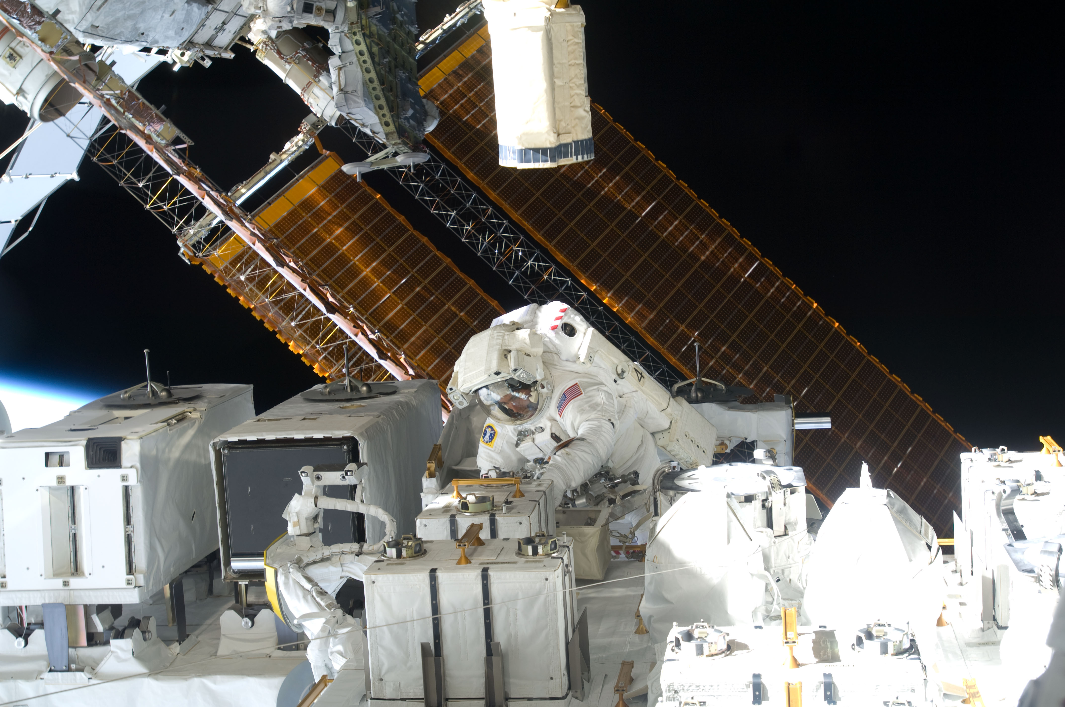 Astronaut Christopher Cassidy, pictured during the Endeavour crew's third space walk, works near the Japanese Exposed Facility (JEF). Astronaut Dave Wolf, Cassidy's colleague for the space walk, is out of frame.